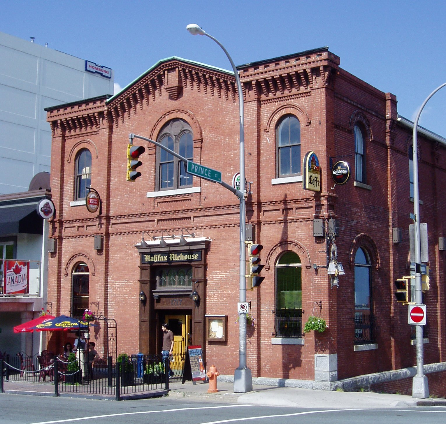 The Halifax Alehouse in Halifax. Taken by SimonP